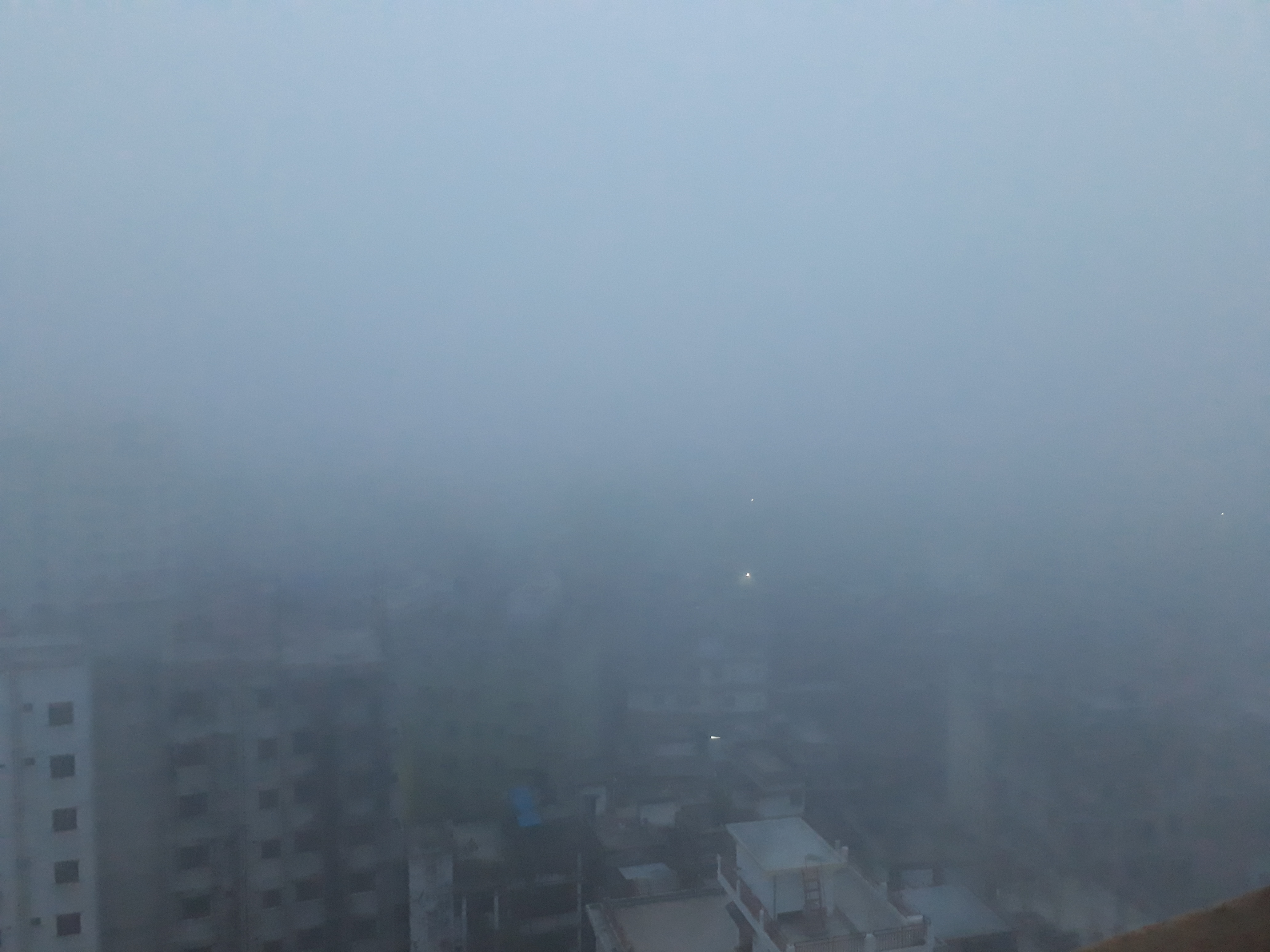 Unusual haze in Motijheel, Dhaka in a morning of April 2020